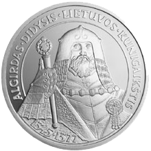 50 litas coin issued to honour Algirdas, the Grand Duke of Lithuania (From the series "The Rulers of Lithuania") Silver Ag 925 Quality proof Diameter 34.00 mm Weight 23.30 g The words on the edge of the coin: IS PRAEITIES TAVO SUNUS TE STIPRYBE SEMIA* (FROM THE PAST LET YOUR SONS DERIVE THEIR STRENGTH) The designer of the coin are Giedrius Paulauskis and Antanas Zukauskas Mintage 4,000 pcs Issued 1998 Distribution terminated 2003 Distributed 2,998 pcs The coin was minted at the state enterprise Lithuanian Mint.